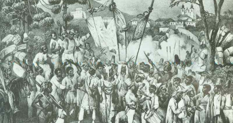 Brazilian dance congada